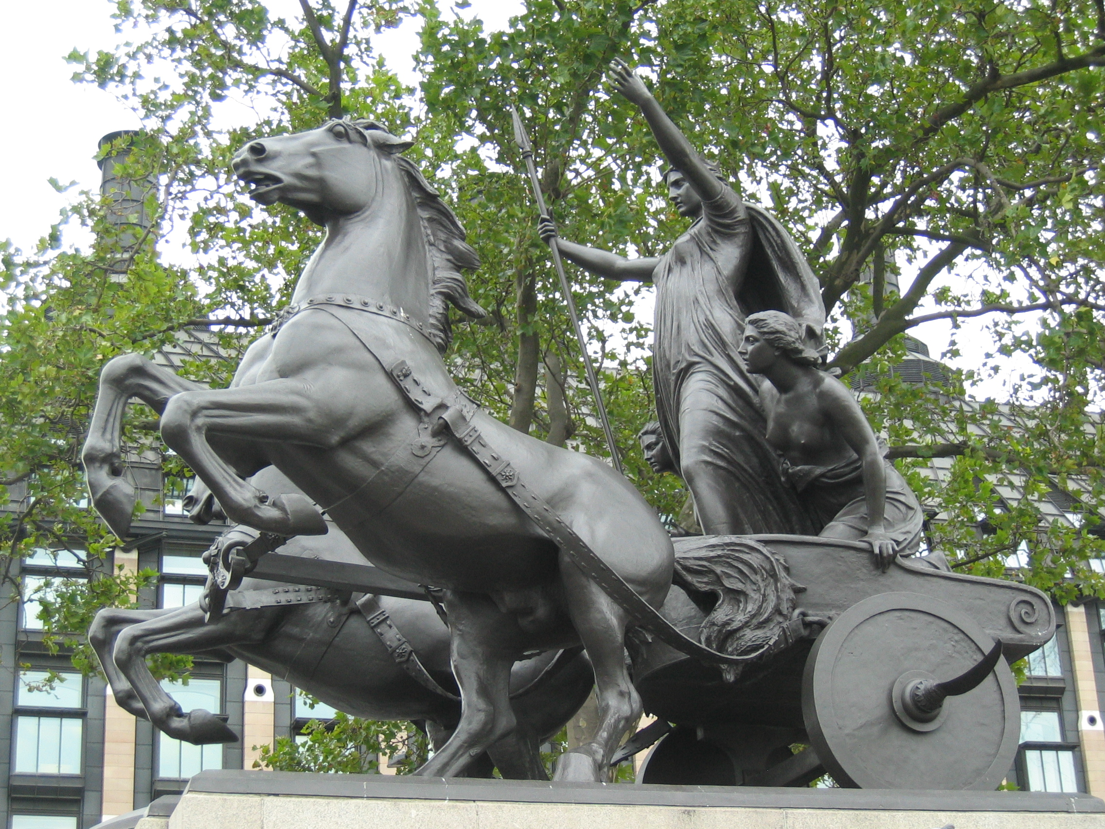 The Boudica statue in London by the Thames.